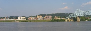 The city of Ironton, Ohio, United States, as seen across the Ohio River from Kentucky